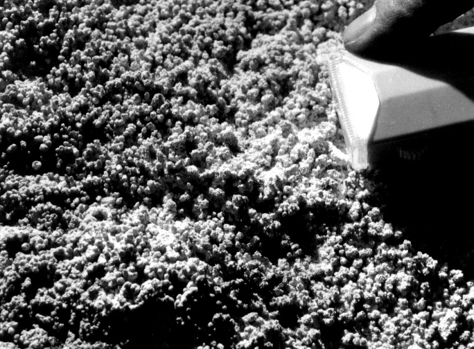 Gödrösi Explosion Cave in Tihany.